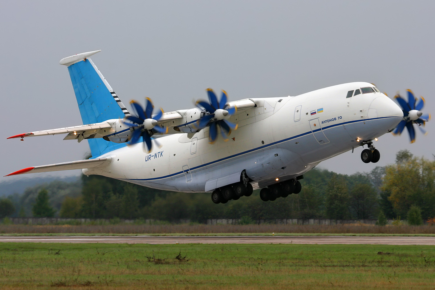 Takeoff of Antonov An-70 transport aircraft